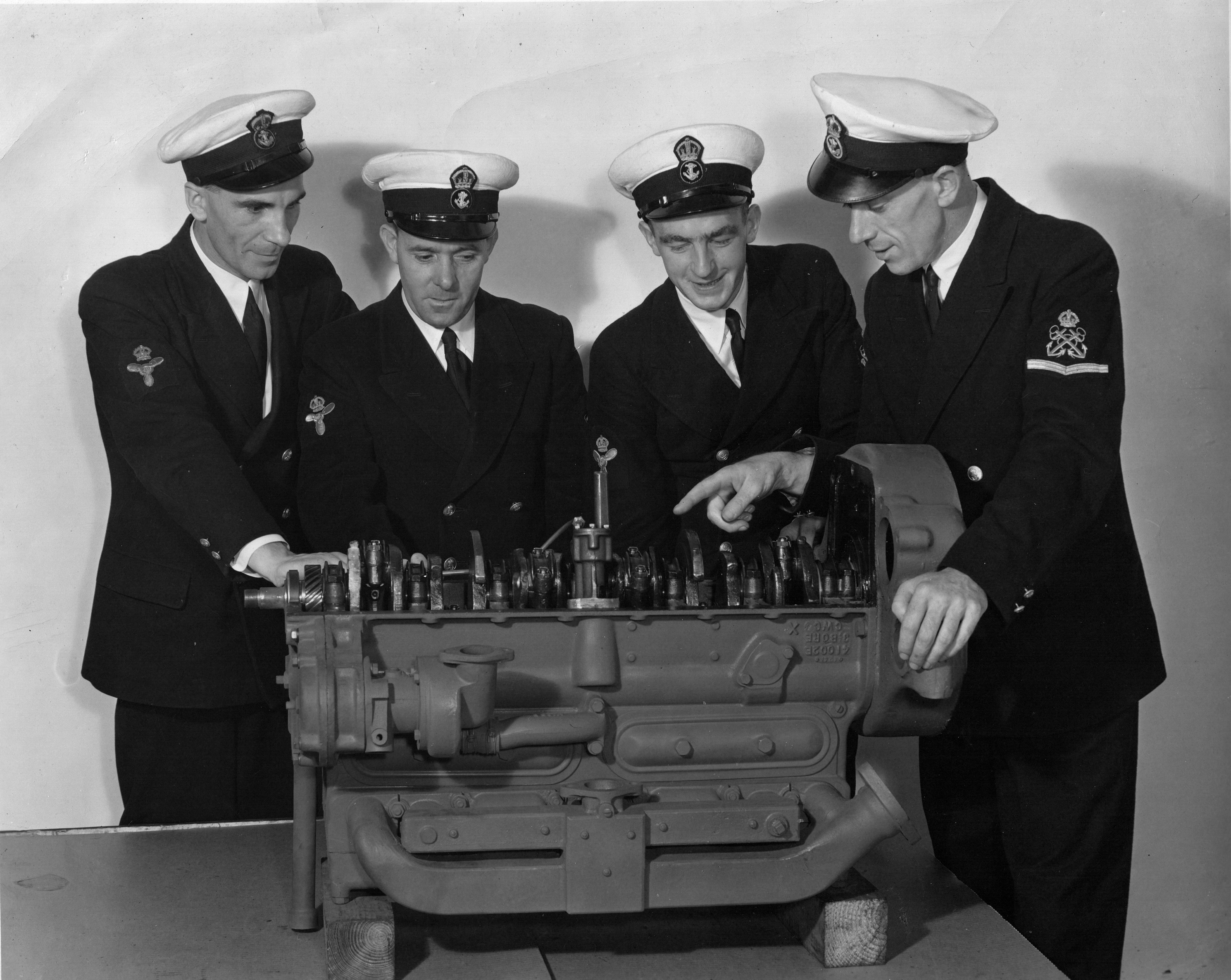 Four UK naval personnel (Gavin Taylor, Simon Slight, Alexander Duthie, Harry Jones) on a training course for Hercules DNX-6 diesel engines at the Hercules Motors Corporation, Canton, Ohio.